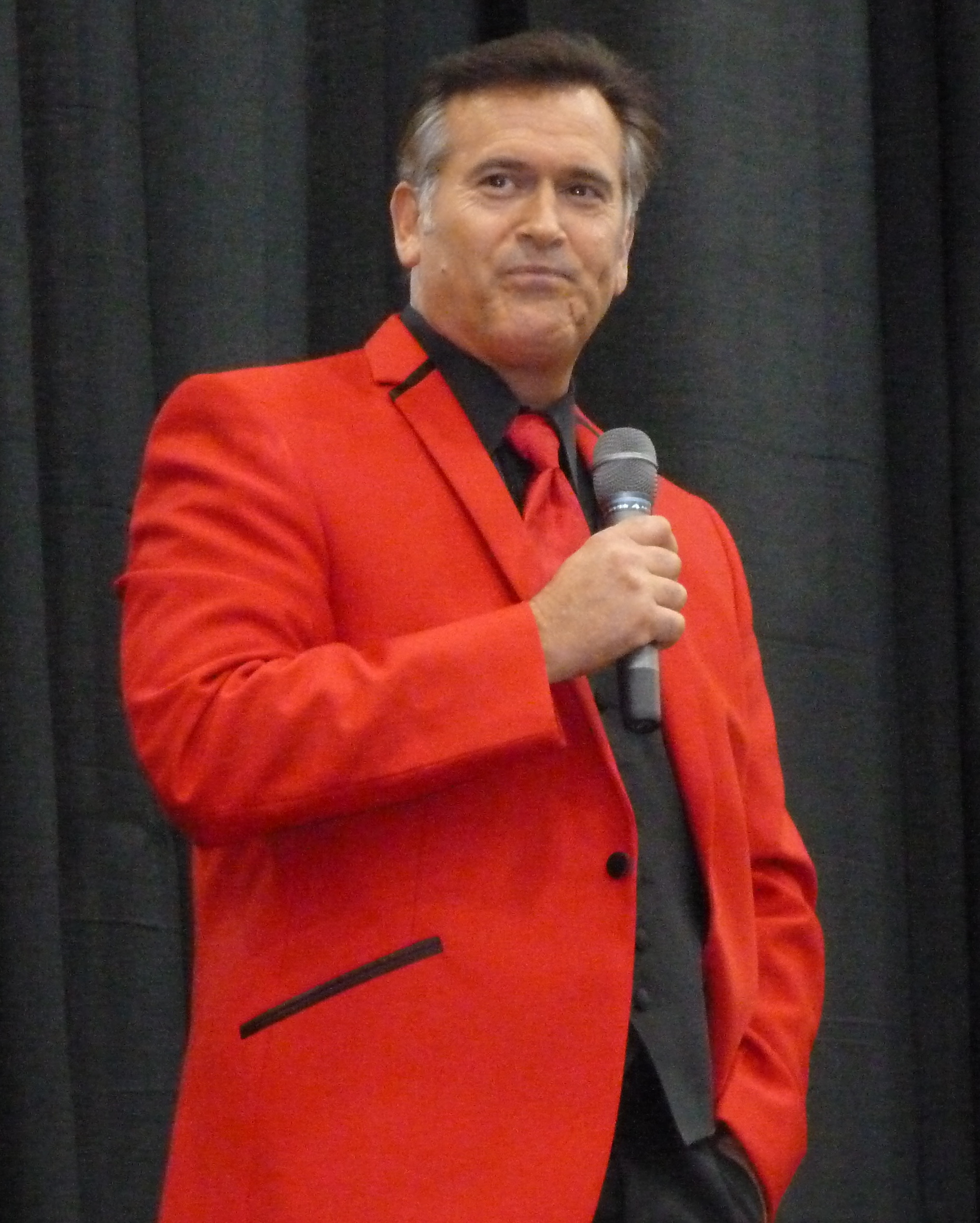 Actor from The Evil Dead: Bruce Campbell at the Detroit Fanfare 2011.